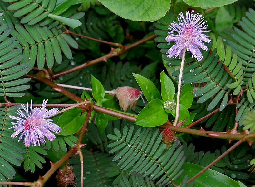 Mimosa pudica- Sensitive Plant, Touch me not, humble plant, shameful plant, sleeping grass, shy plant, shrinking plant, modest plant, virgin plant, Chui-mui छुई-मुई (Hindi), {Kangphal, Kangphal ikaithabi} (Manipuri), Lajwanti लाजवंती (Hindi), தொட்டாச்சுருங்கி thottaccurungi (Tamil), Tintarmani (Malayalam), Nilajban (Assamese), Lajjabati (Bengali) in Goa, India.